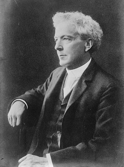 Luther Burbank (1849 – 1926), American botanist, horticulturist and pioneer in agricultural science